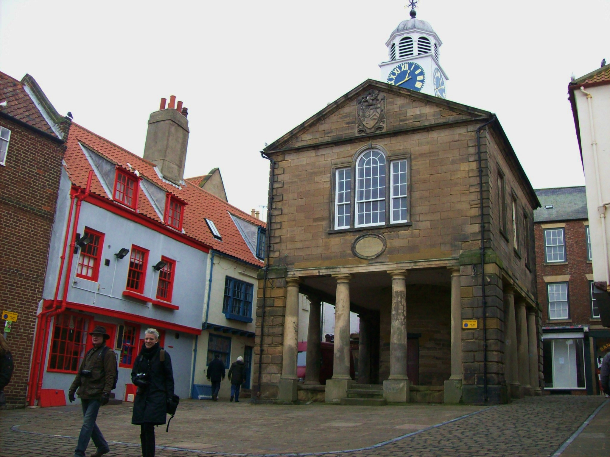 The Market Hall, Whitby